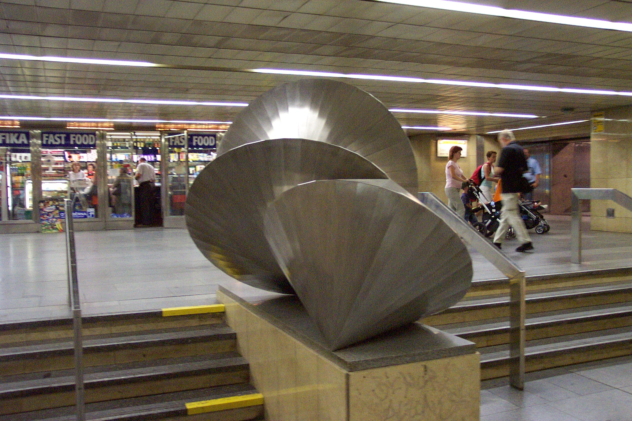 Metro station Palmovka, Prague, CZ